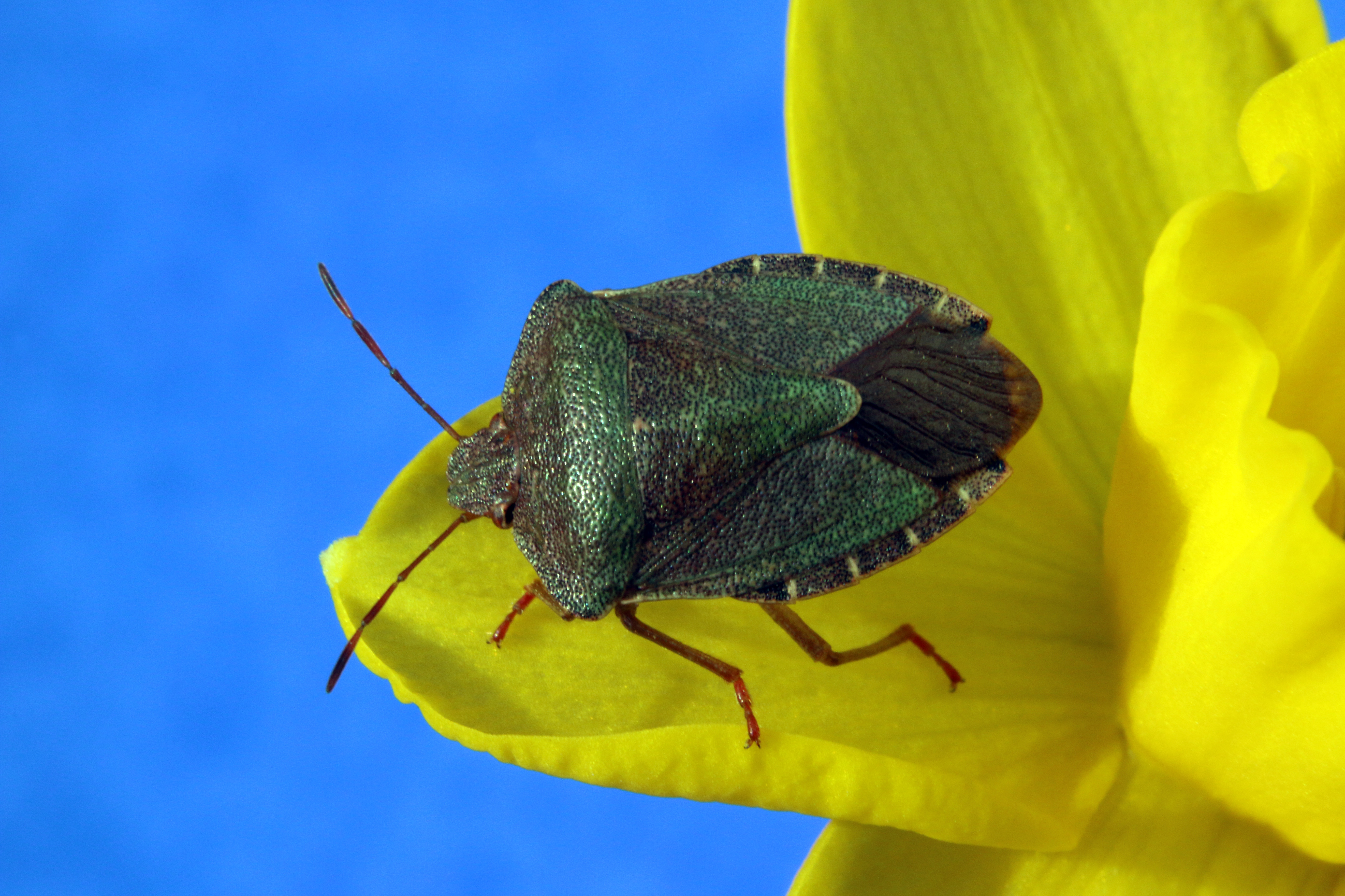 Spring adult green shield bug (Palomena prasina) in Oxfordshire